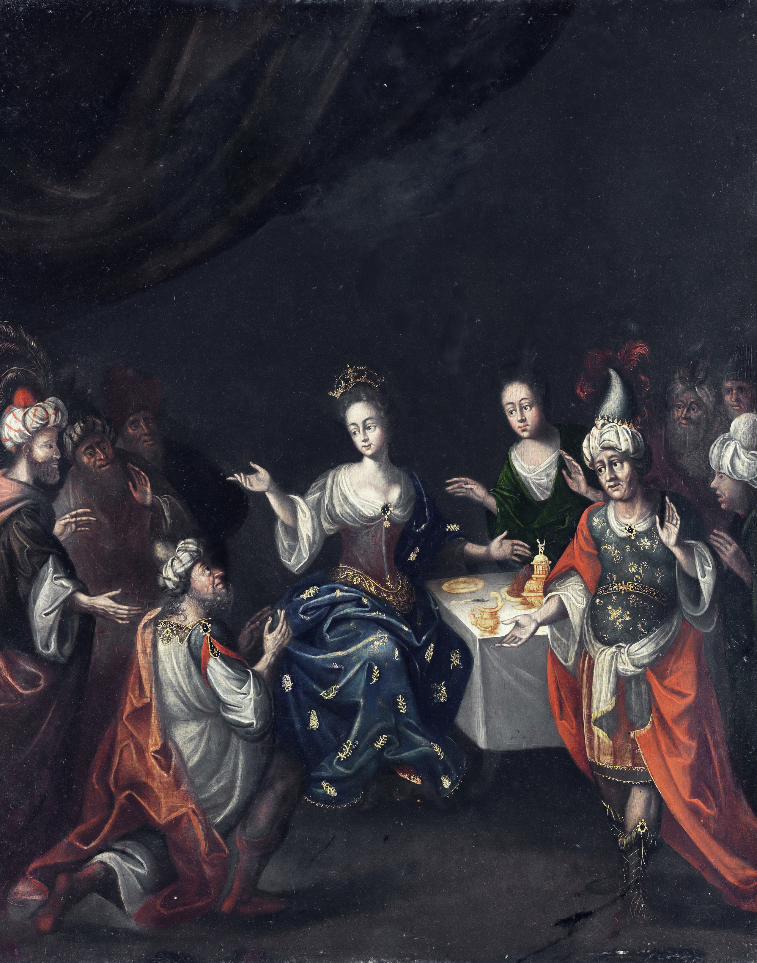 Marie Anne de Bourbon refusing the marriage proposal on behalf of Moulay Ismaïl, King of Morocco oil on panel 49.5 x 41.2 cm